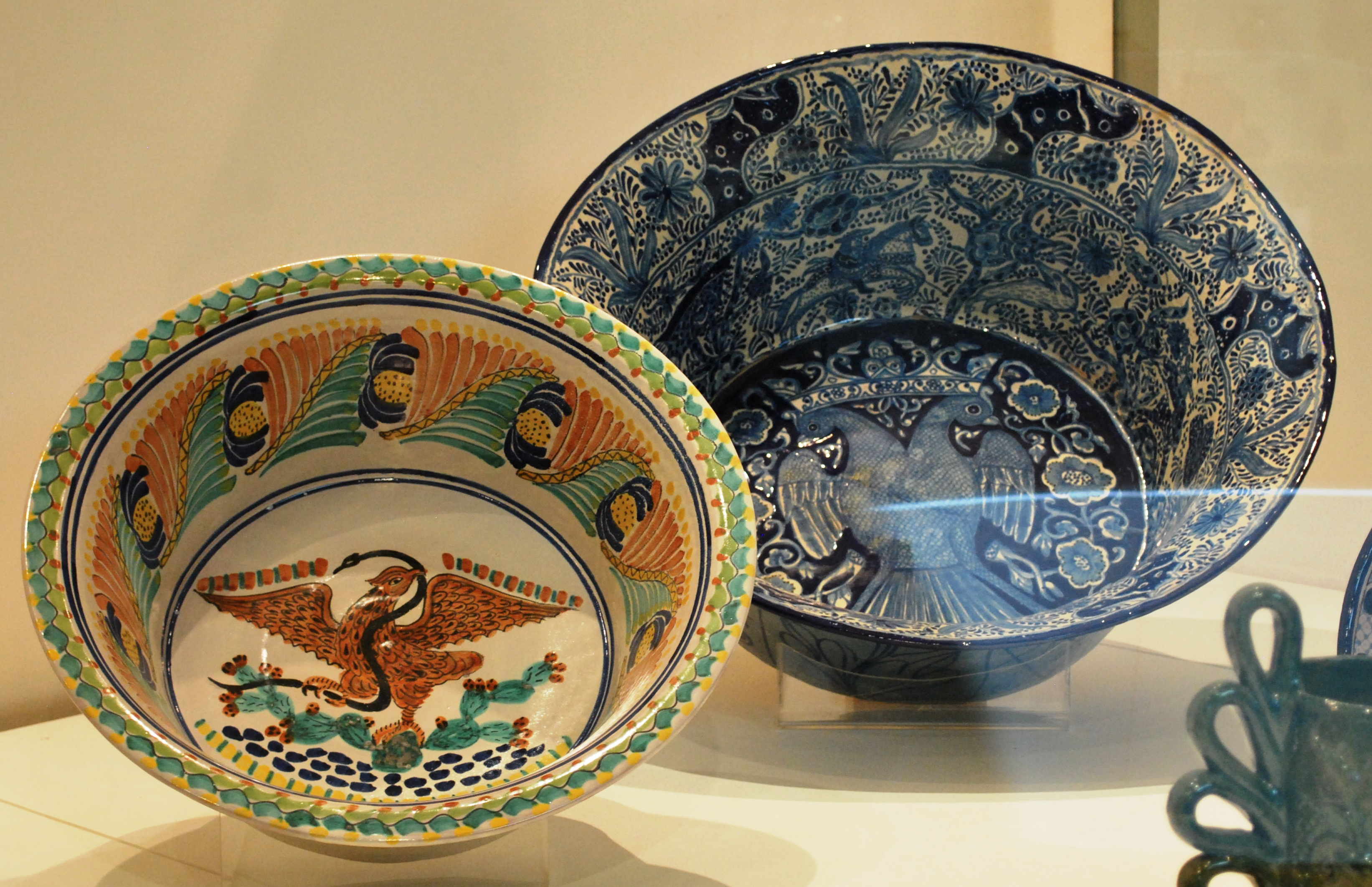 Talavery pottery washbasins from Puebla on display at the Museum of Artes Populares in Mexico City